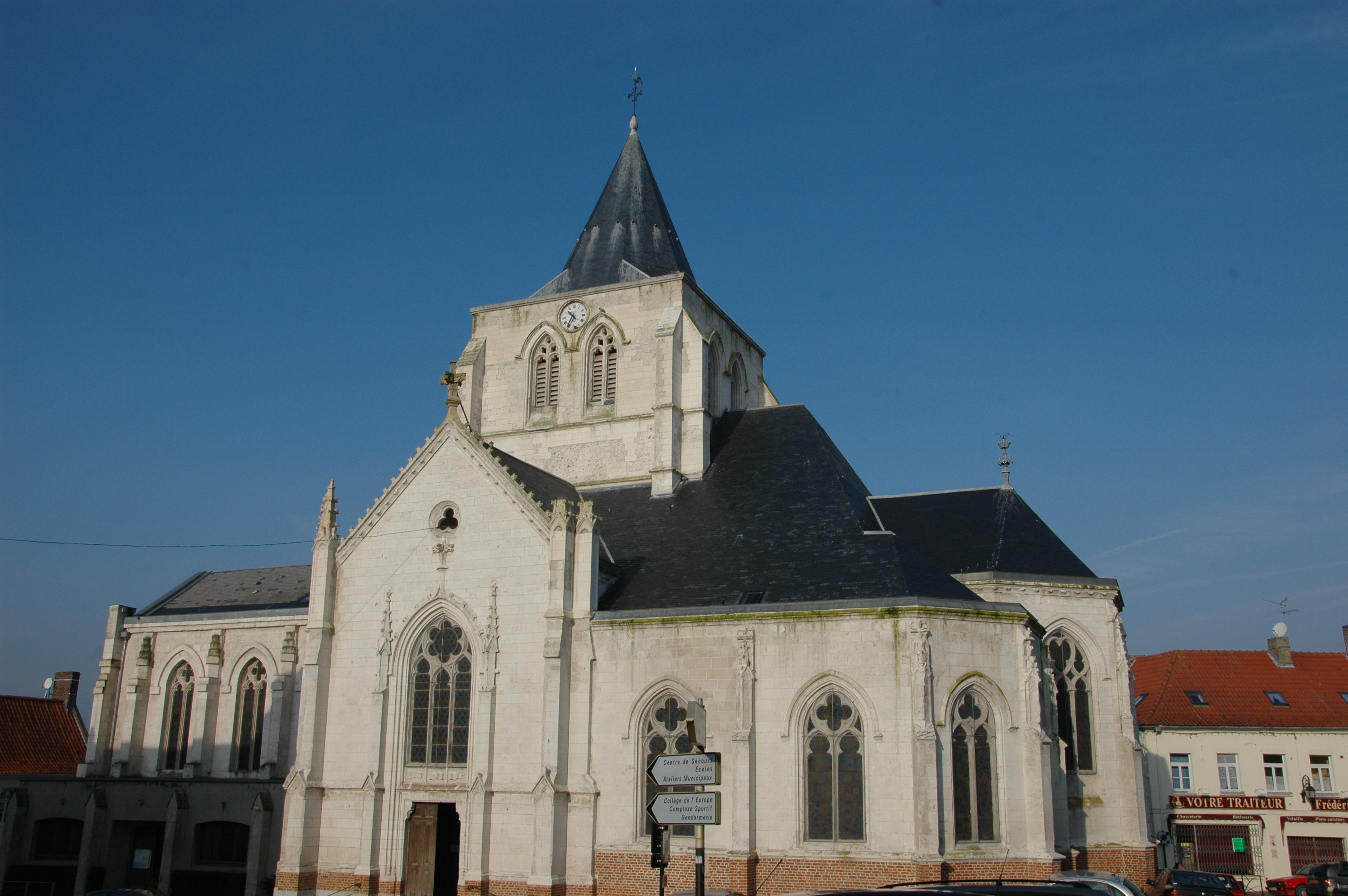 Ardres Notre Dame church